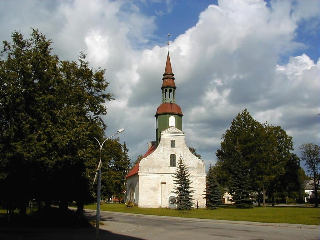 St. Catherine's Lutheran Church, Valka